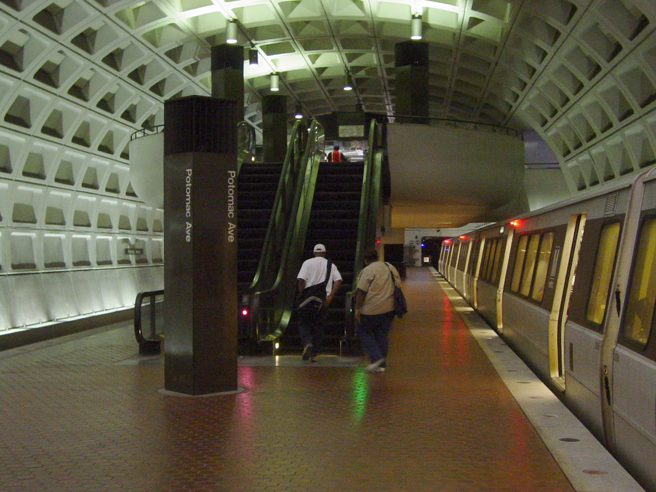 Potomac Avenue station